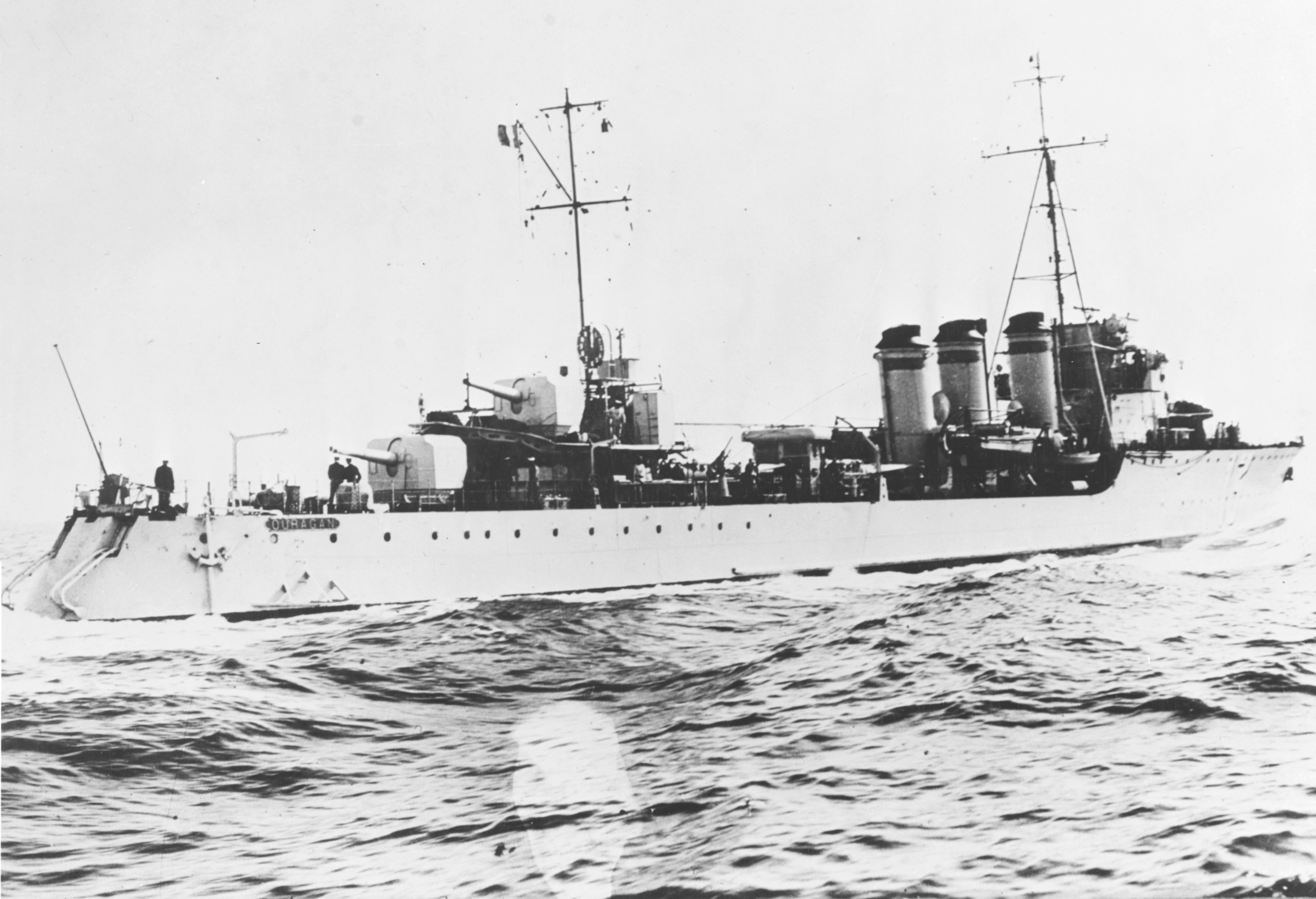 The French destroyer Ouragan underway, circa 1934.